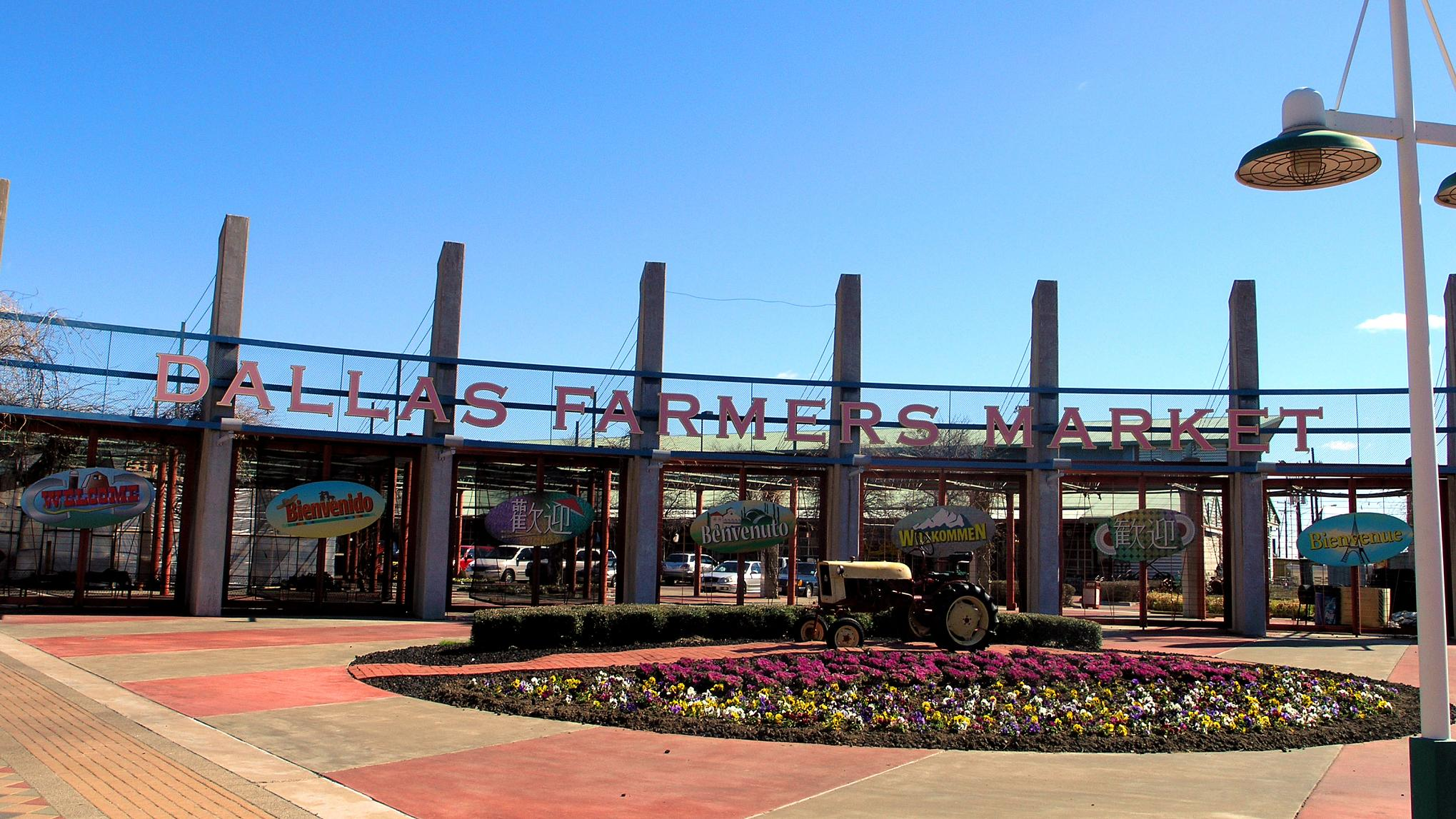 The entrance to the Dallas Farmers' Market